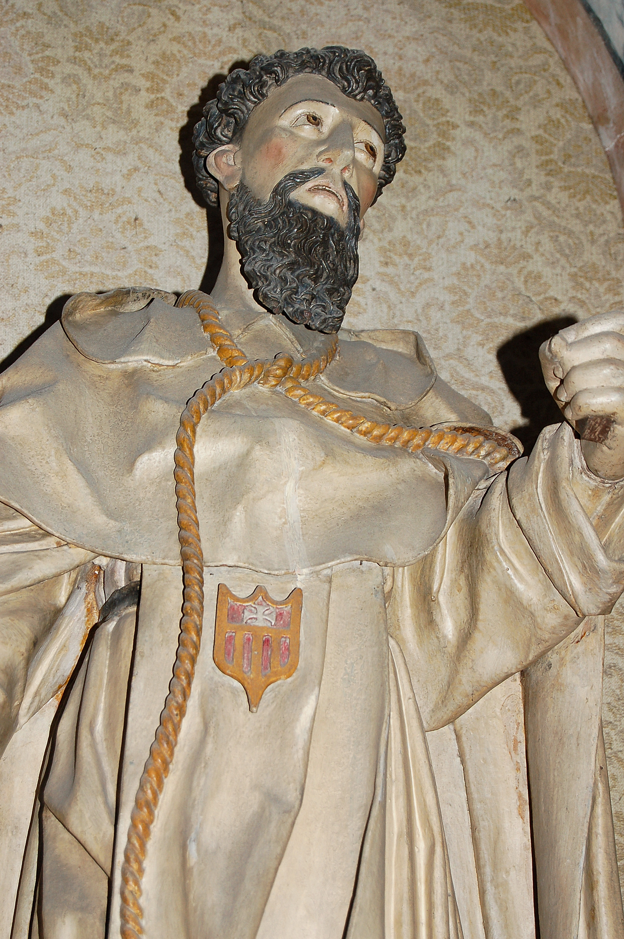 Pedro Armengol na capela anexa a Santa María de Conxo (Santiago de Compostela)